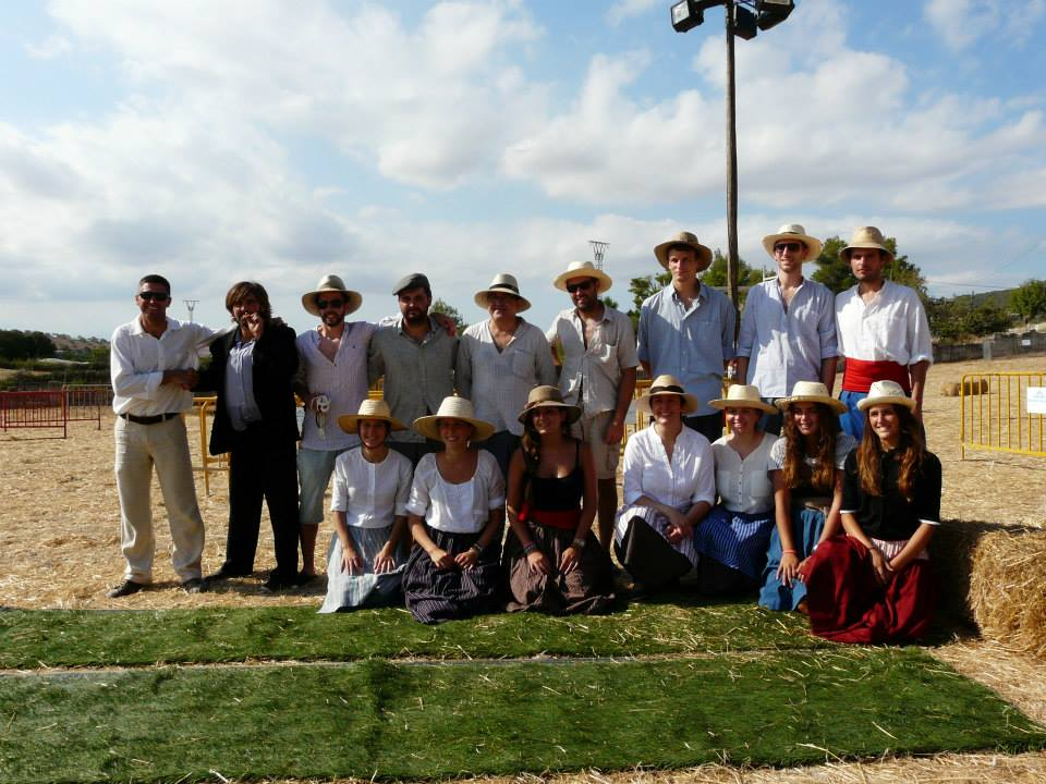 comissio